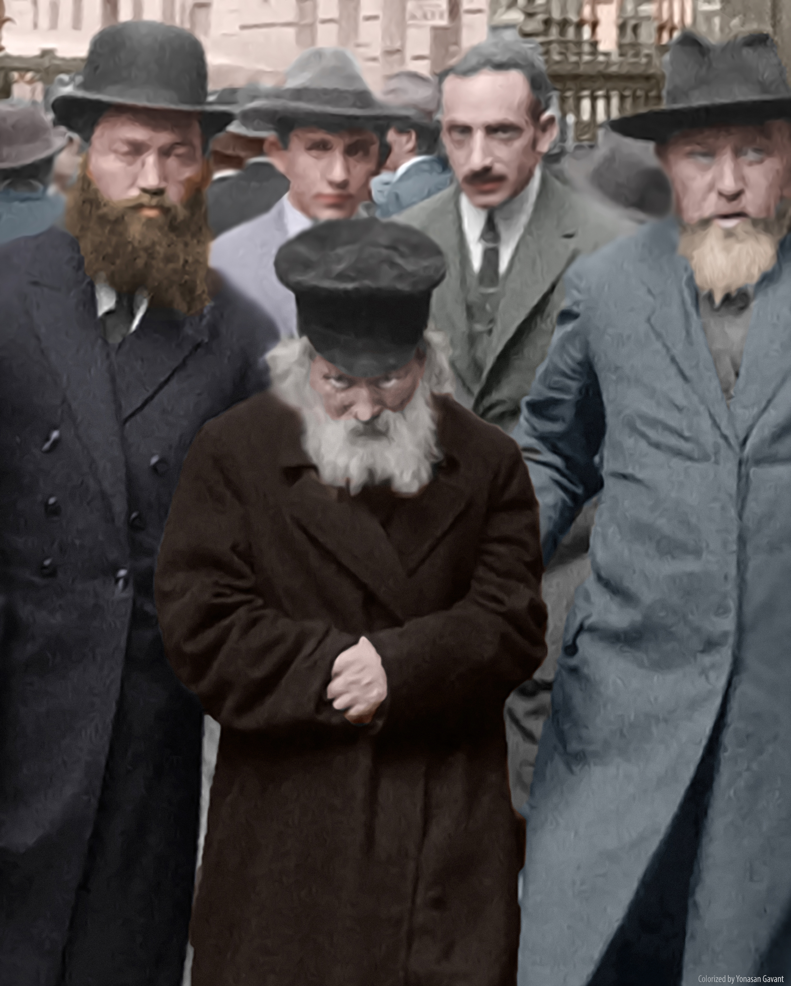 For more information about this photo, see here